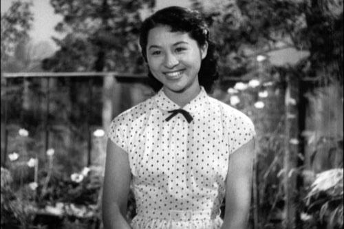 Kyōko Kagawa in 1952 Japanese movie Lightning